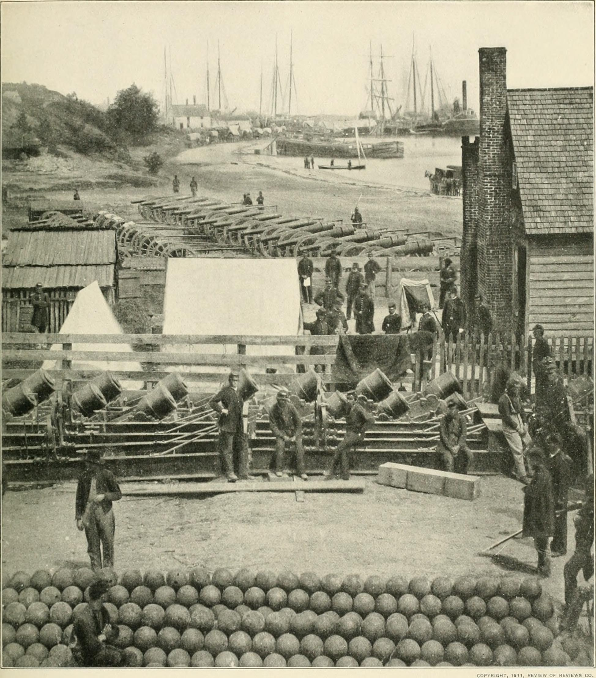 Title: The photographic history of the Civil War : thousands of scenes photographed 1861-65, with text by many special authorities Year: 1911 (1910s) Authors: Miller, Francis Trevelyan, 1877-1959 Lanier, Robert S. (Robert Sampson), 1880- Subjects: United States -- History Civil War, 1861-1865 Pictorial works United States -- History Civil War, 1861-1865 Publisher: New York : Review of Reviews Co. Text Appearing Before Image: ' Text Appearing After Image: REVIEW OF REVIEWS CO. McCLELLANS GUNS AND GUNNERS READY TO LEAVE YORKTOYVN This photograph of May, 1862, shows artillery that accompanied McClellan to the Peninsula, parked near the lower wharf at Yorktownafter the Confederates evacuated that city. The masts of the transports, upon which the pieces are to be loaded, rise in the background.On the shore stand the serried ranks of the Parrott guns. In the foreground are the little Coehorn mortars, of short range, but accurate.When the Army of the Potomac embarked early in April, 1862, fifty-two batteries of 259 guns went with that force. Later Franklinsdivision of McDowells Corps joined McClellan with four batteries of twenty-two guns, and, a few days before the battle of Mechanics-ville, McCalls division of McDowells Corps joined with an equal number of batteries and guns. This made a grand total of sixtyfield batteries, or 353 guns, with the Federal forces. In the background is part of a wagon train beginning to load the vessels. ®ljr